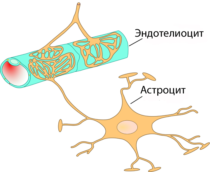 This file was taken from german wikipedia article (Blut-Hirn-Schranke) which was made by user Kuebi = Armin Kübelbeck under licence Creative Commons Attribution 3.0 Unported. I changed german words in russian with Photoshop